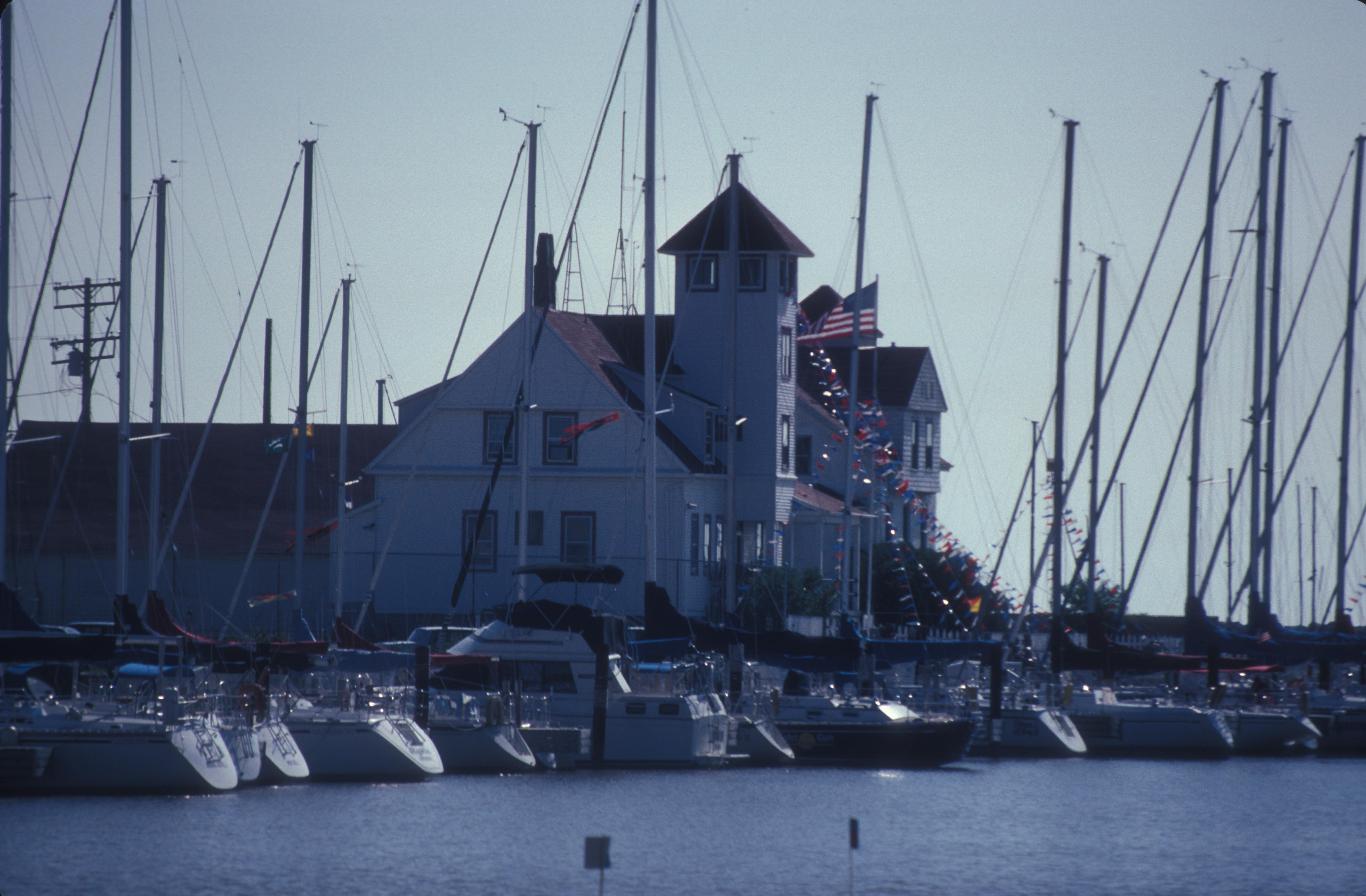 1863 & 1866; THE PICTURE SHOWS THE LIGHT SAVING STATION.